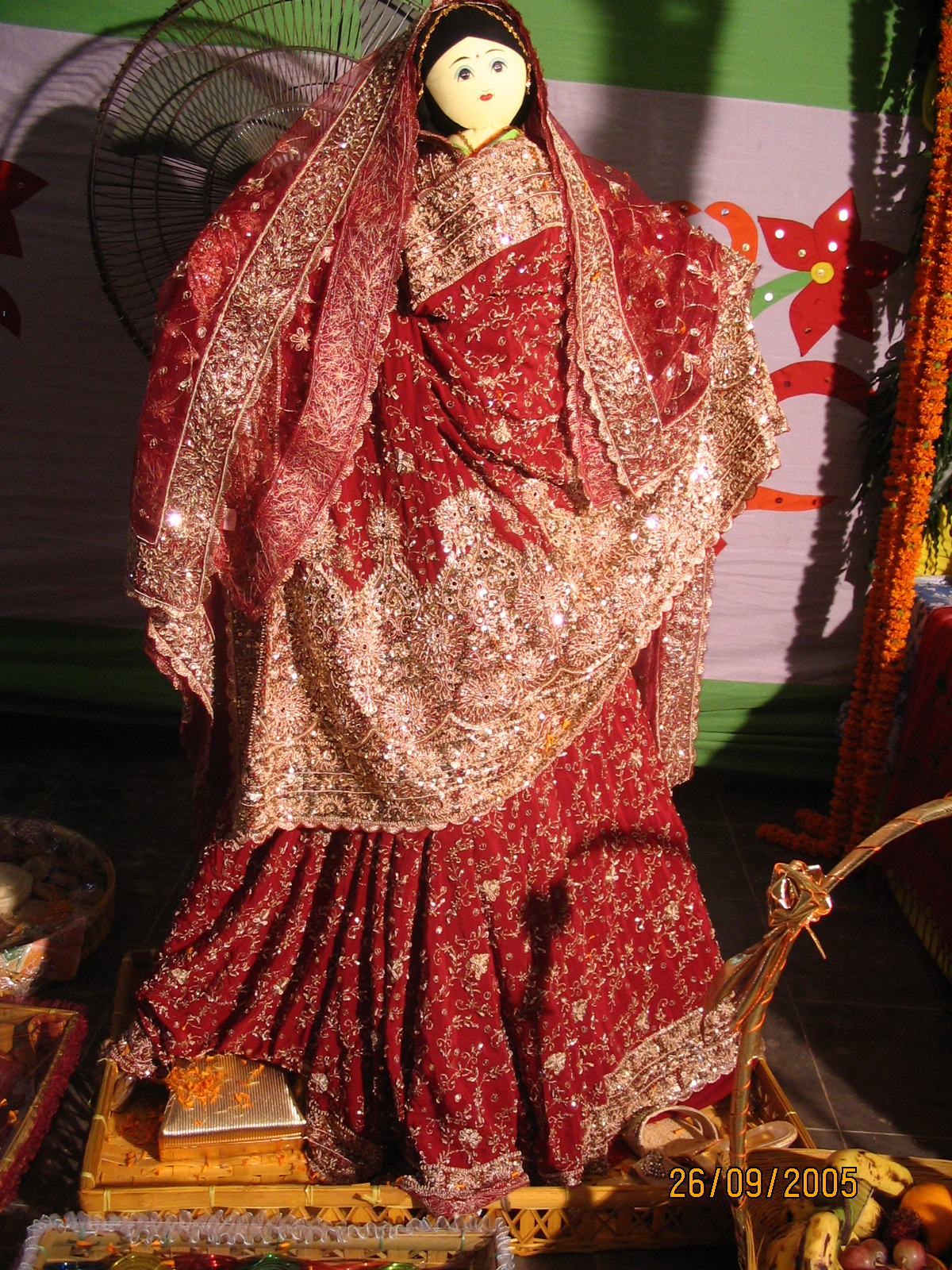 A Bangladeshi traditional doll, depicting a bride dressed up for the Gaye Holud ceremony